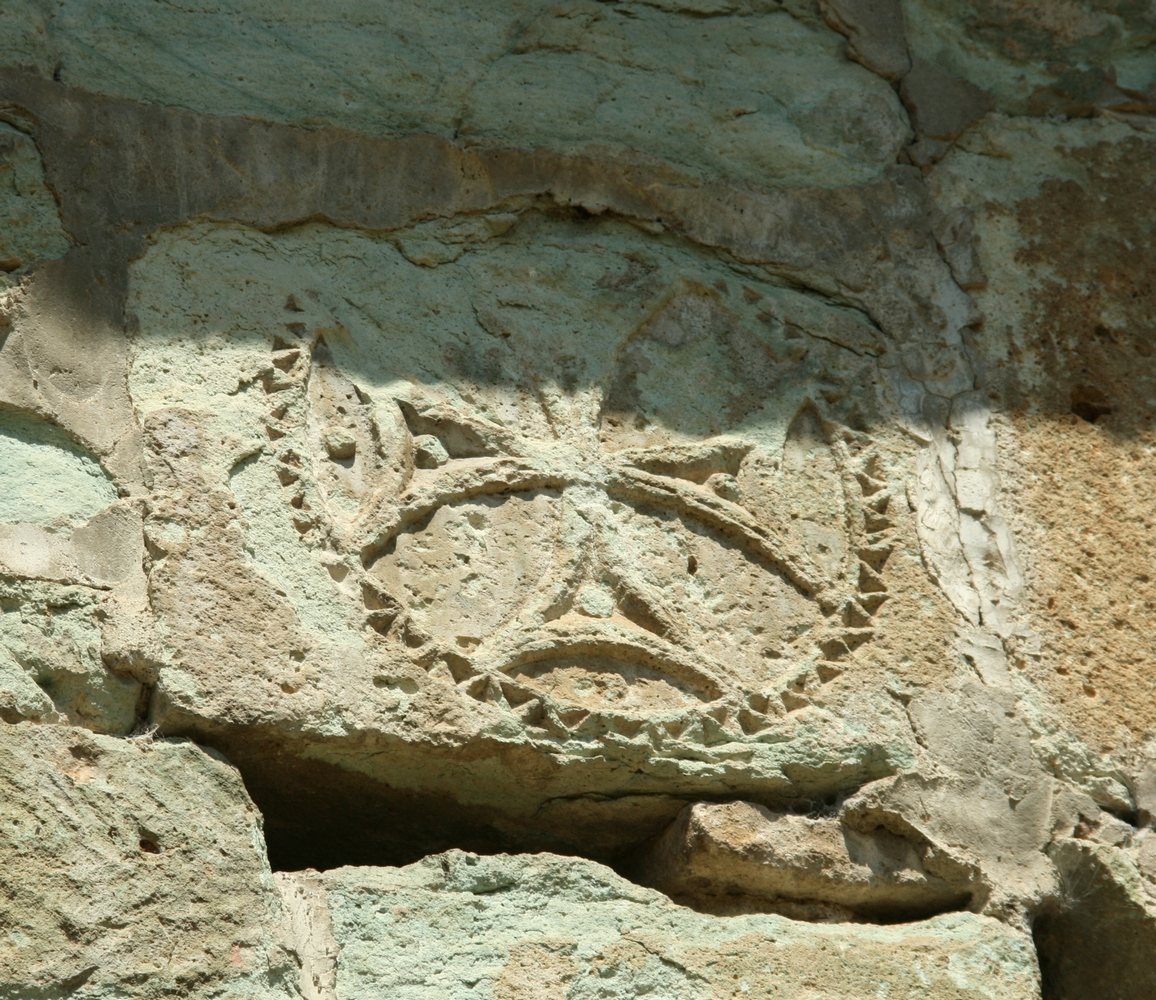 Bolnisi Sioni church. Cross